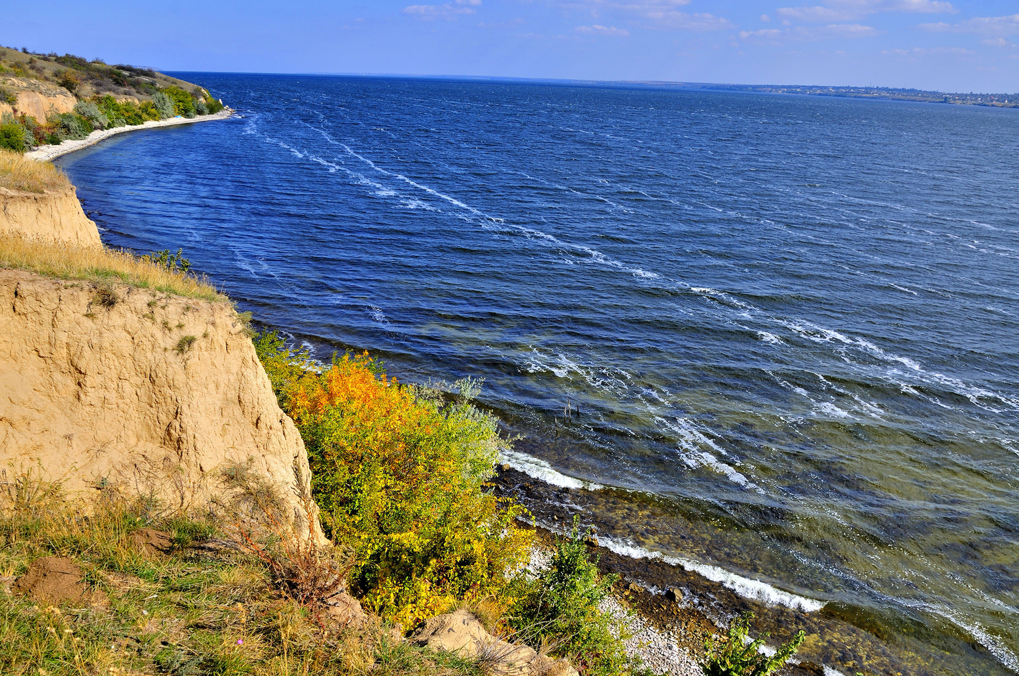 The territory of the former Kamianska Sich.